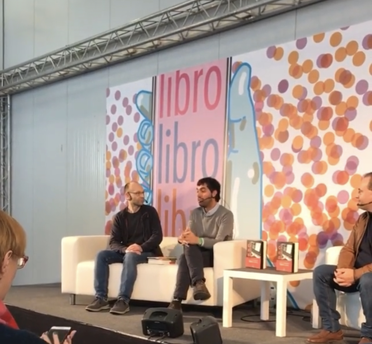 Pontevedra